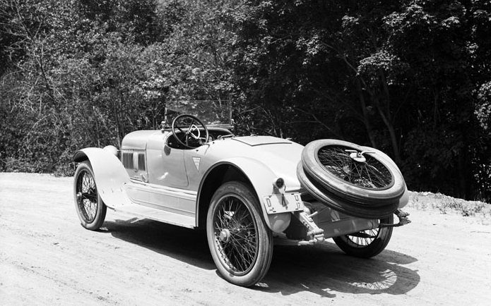 1917 Mercer Raceabout Commercial photo taken on assignment, published circa 1917. PhotographerShipler Commercial Photographers; Shipler, Harry URL